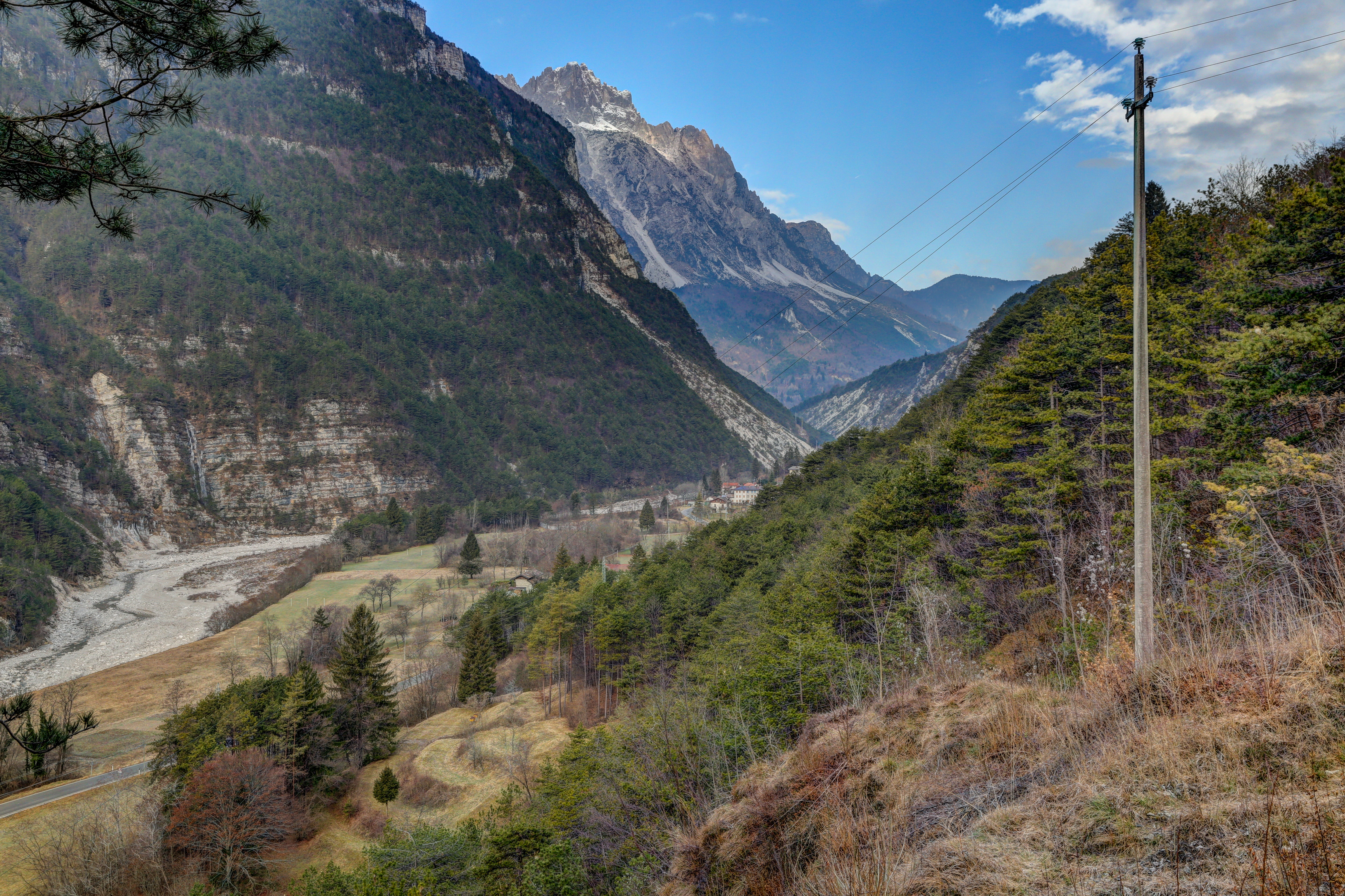 Creta Grauzaria (2.065m) seen from hamlet Pradis in the Val d'Aupa in the Carnic Alps, community Moggio Udinese / Friuli-Venezia Giulia / Italy / EU.